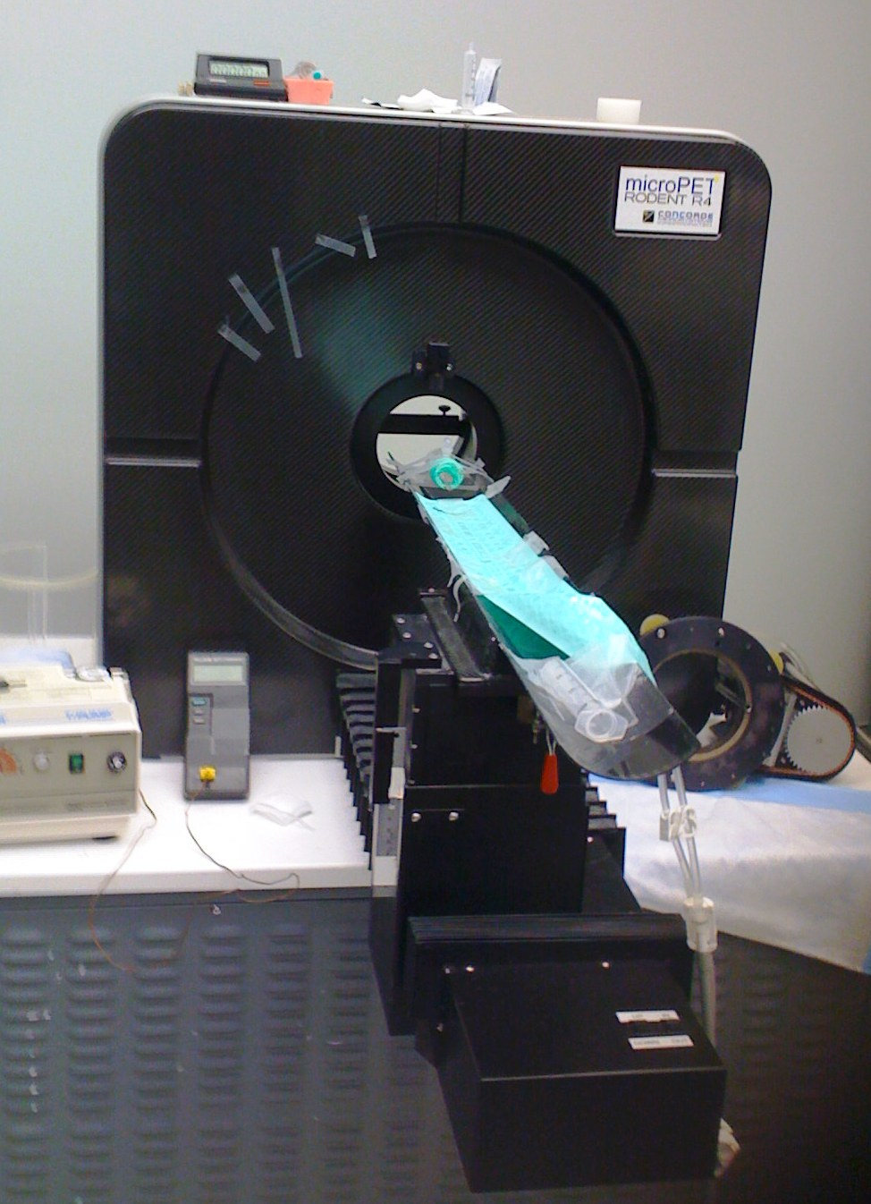 A MicroPET at RIC, UTHSCSA, San Antonio, Texas